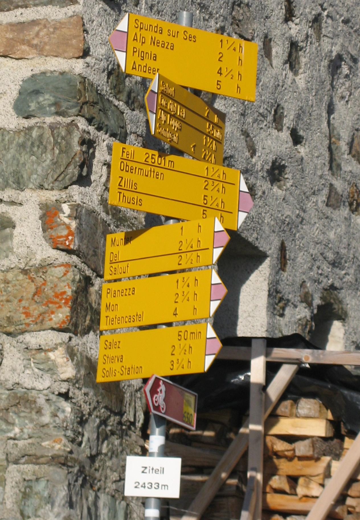 Fingerpost Ziteil, Salouf, Grisons, Switzerland